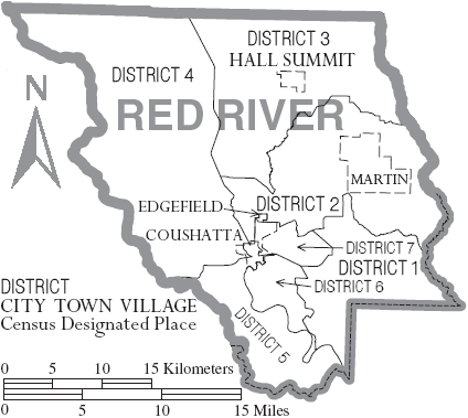 Map of Red River Parish, Louisiana, United States with district and municipal boundaries